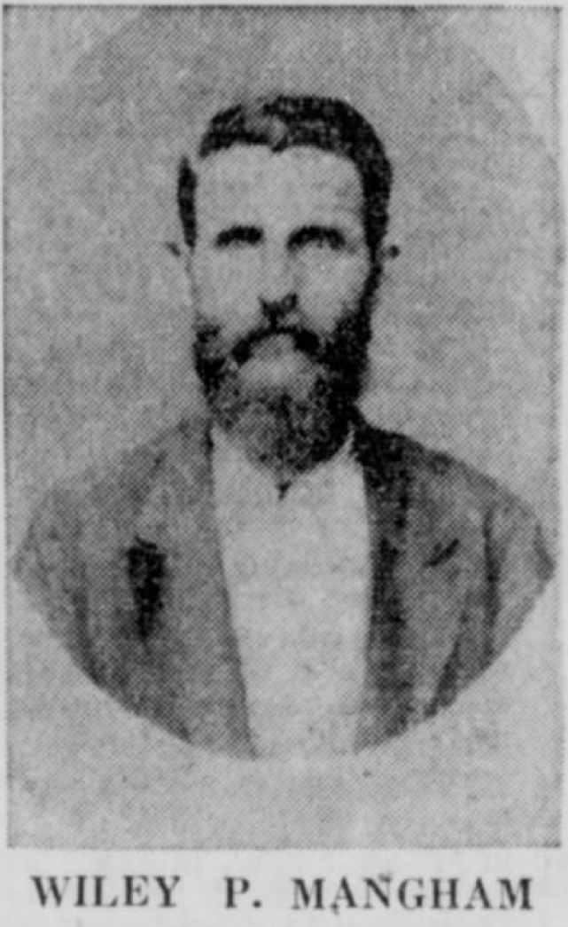 Photograph of Wiley Person Mangham, First Publisher and Editor of the Richland Beacon News.